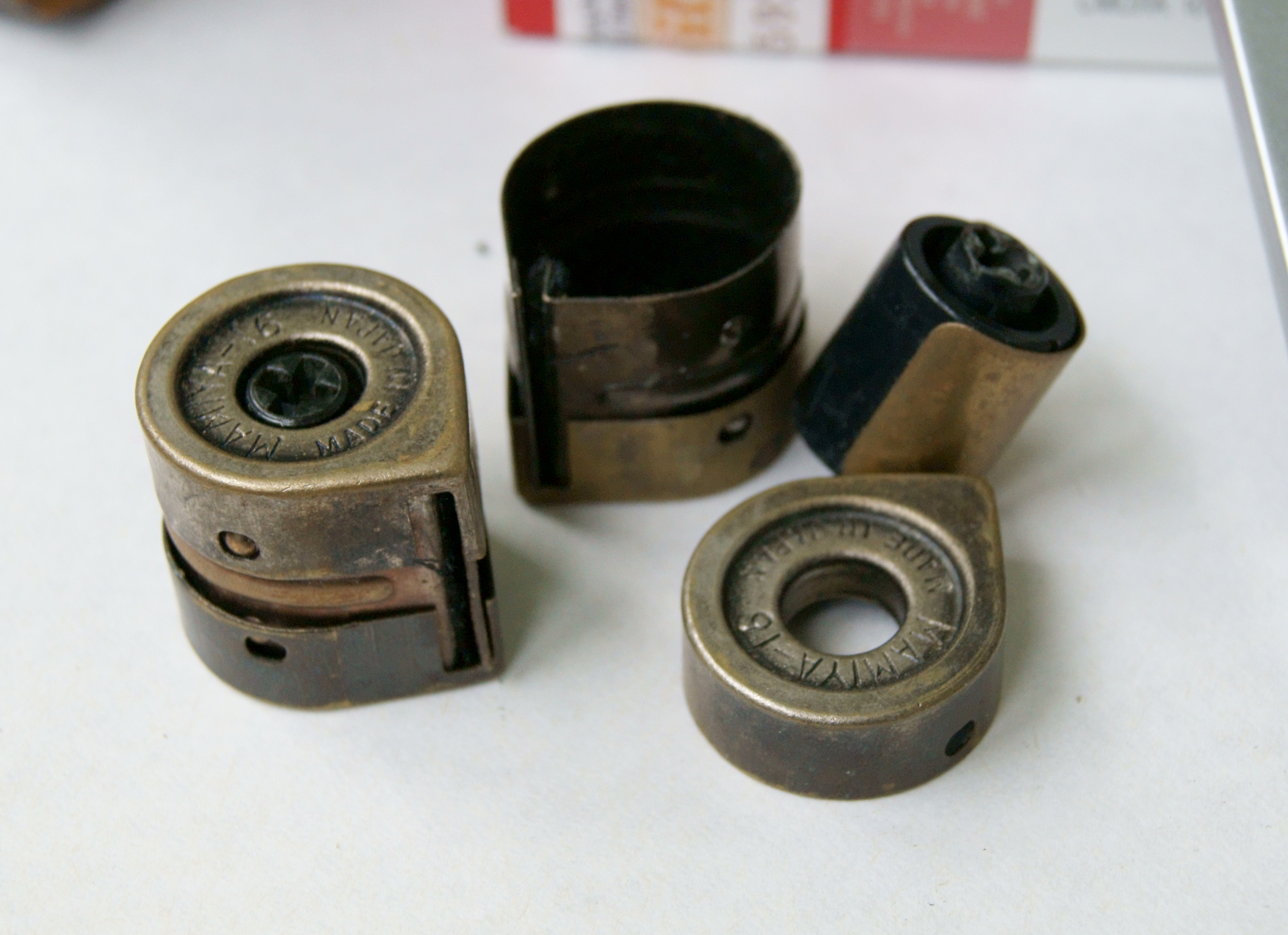 One of two identical cartridges is for unexposed film, and the second is used for take-up. Film is loaded by clipping it between the inner drum and the brass cuff.